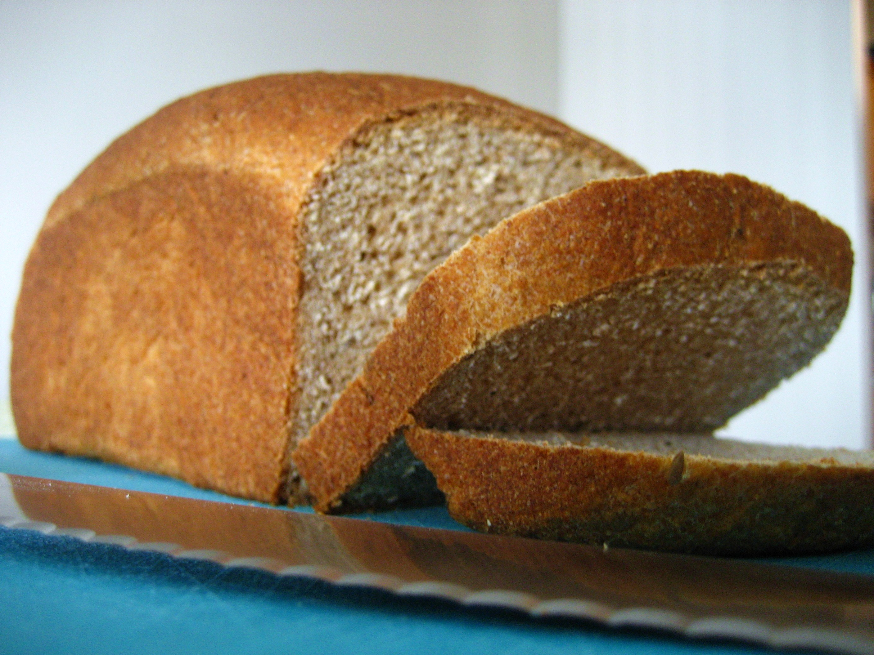 Choosing more whole wheat options